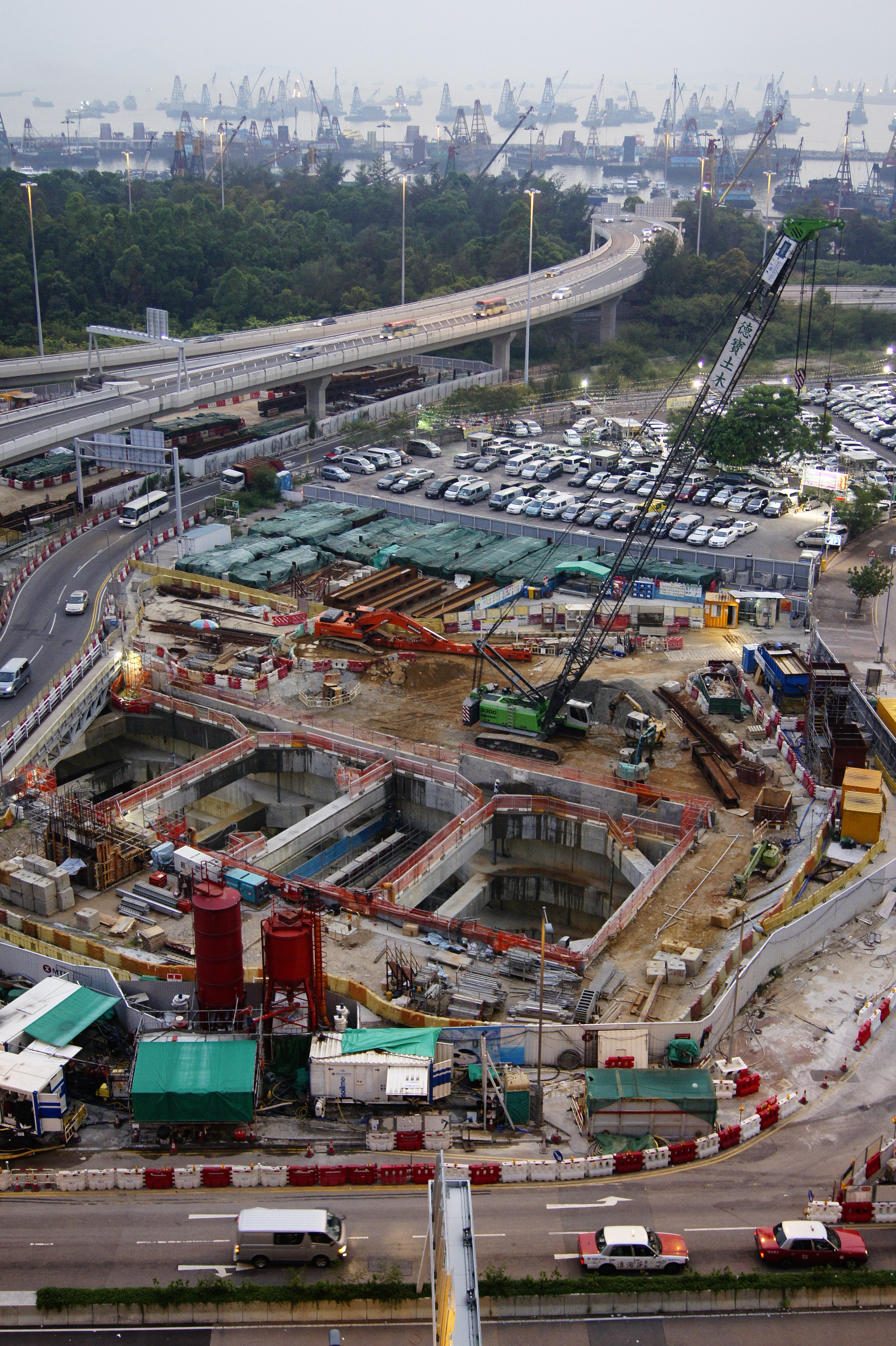 Retrieval shaft at Lai Cheung Road in Mong Kok West